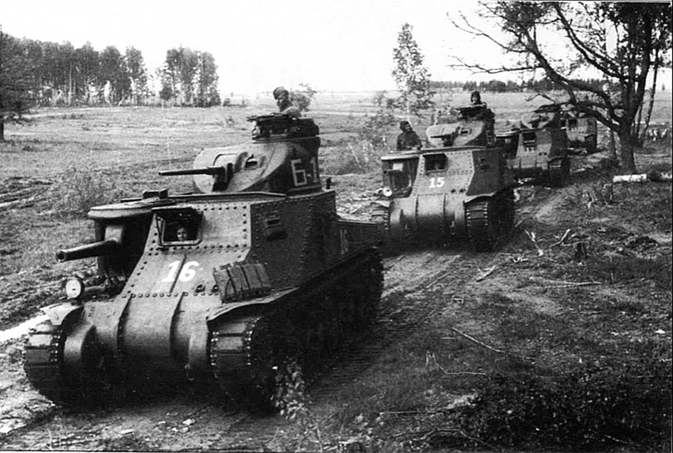 A company of American-supplied M3 Lee Lend-Lease tanks advances to the frontline of the 6th Guards Army during the Battle of Kursk.